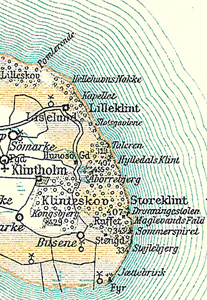 Map of the Cliffs of Møn, in Denmark